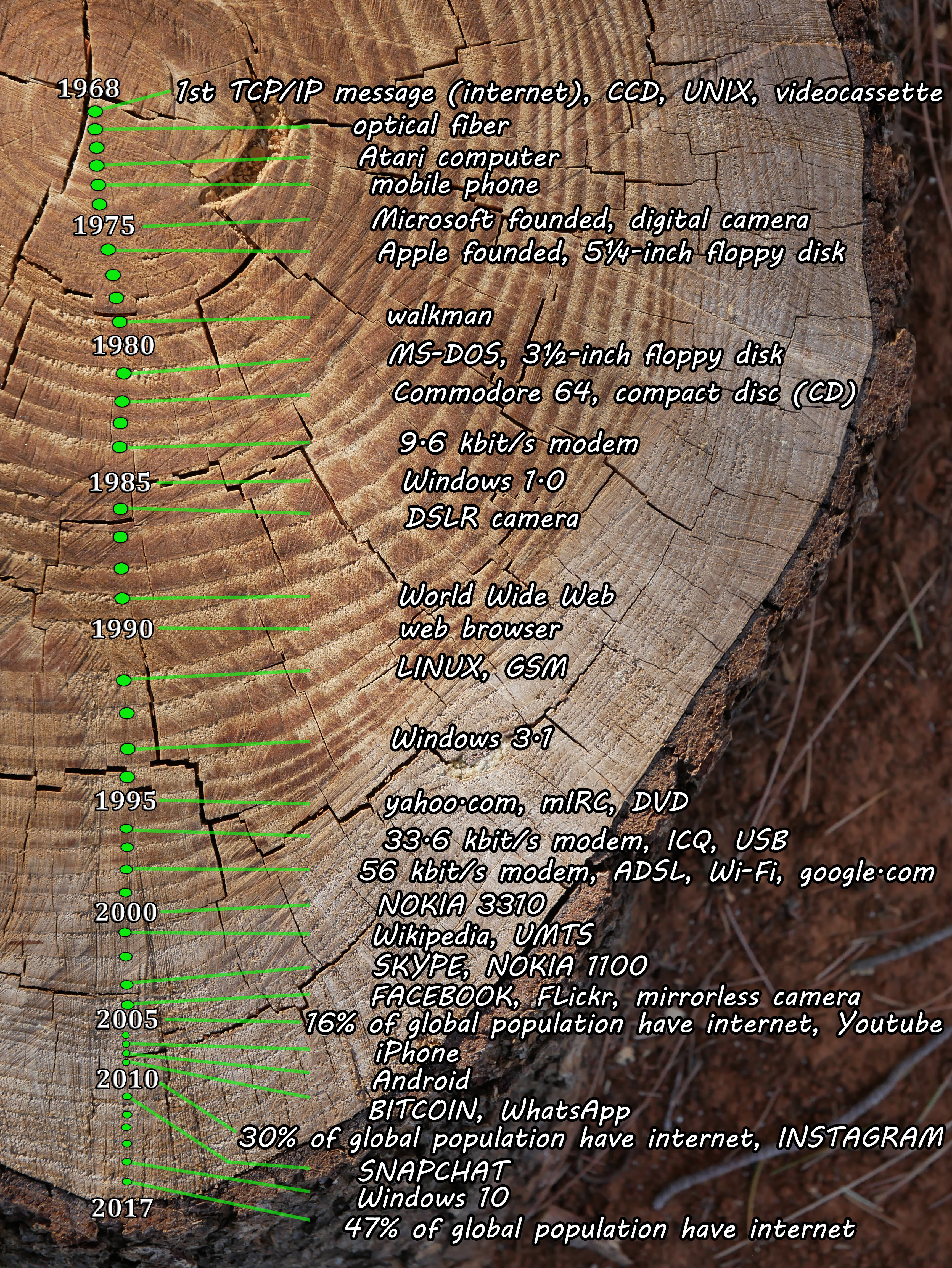 Rings of time: Information Age (Digital Revolution) from 1968 to 2017. Spruce tree. This photograph was taken with a Panasonic Lumix DMC-G85/G80